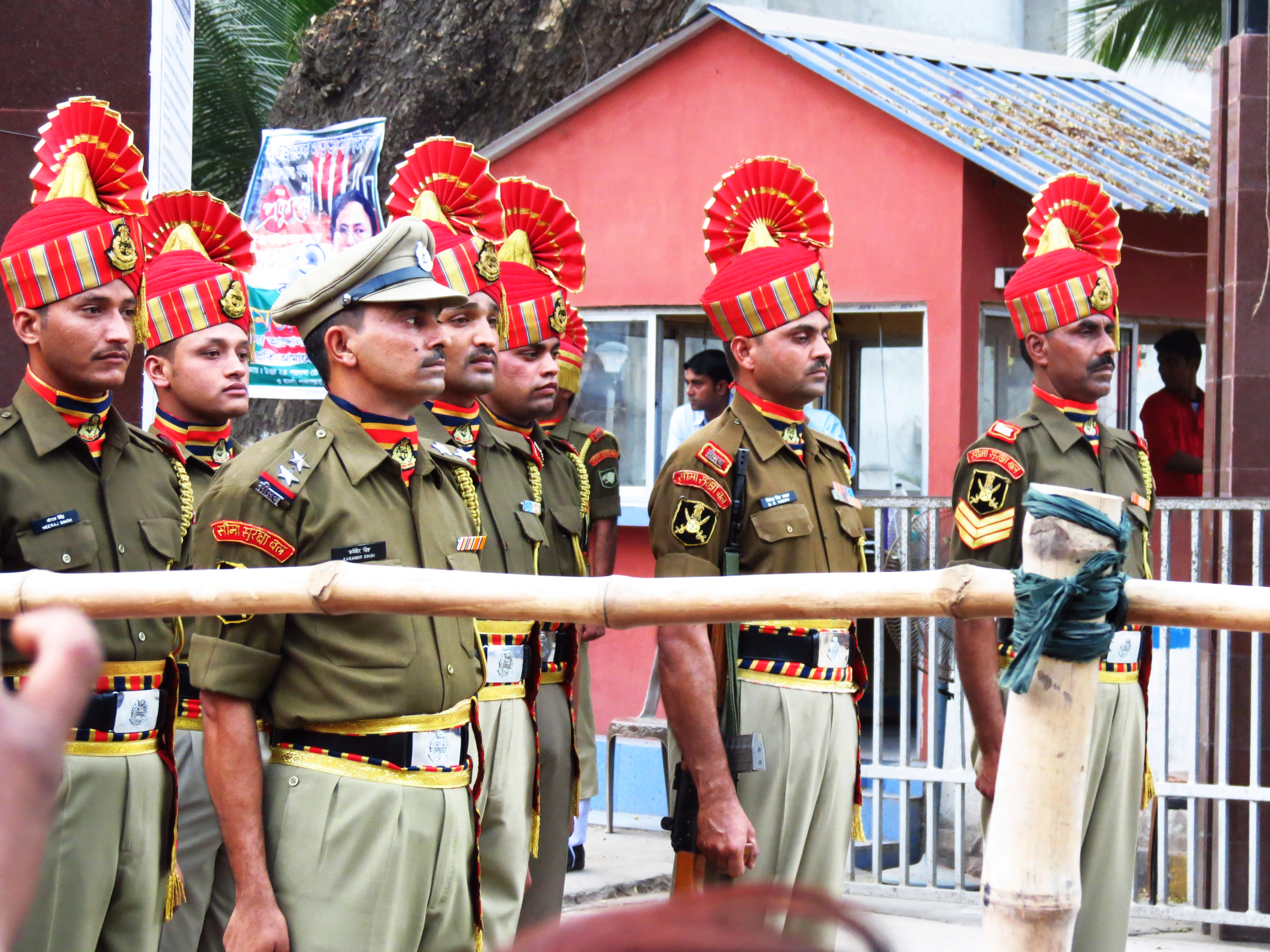 BSF soldiers at Petrapole